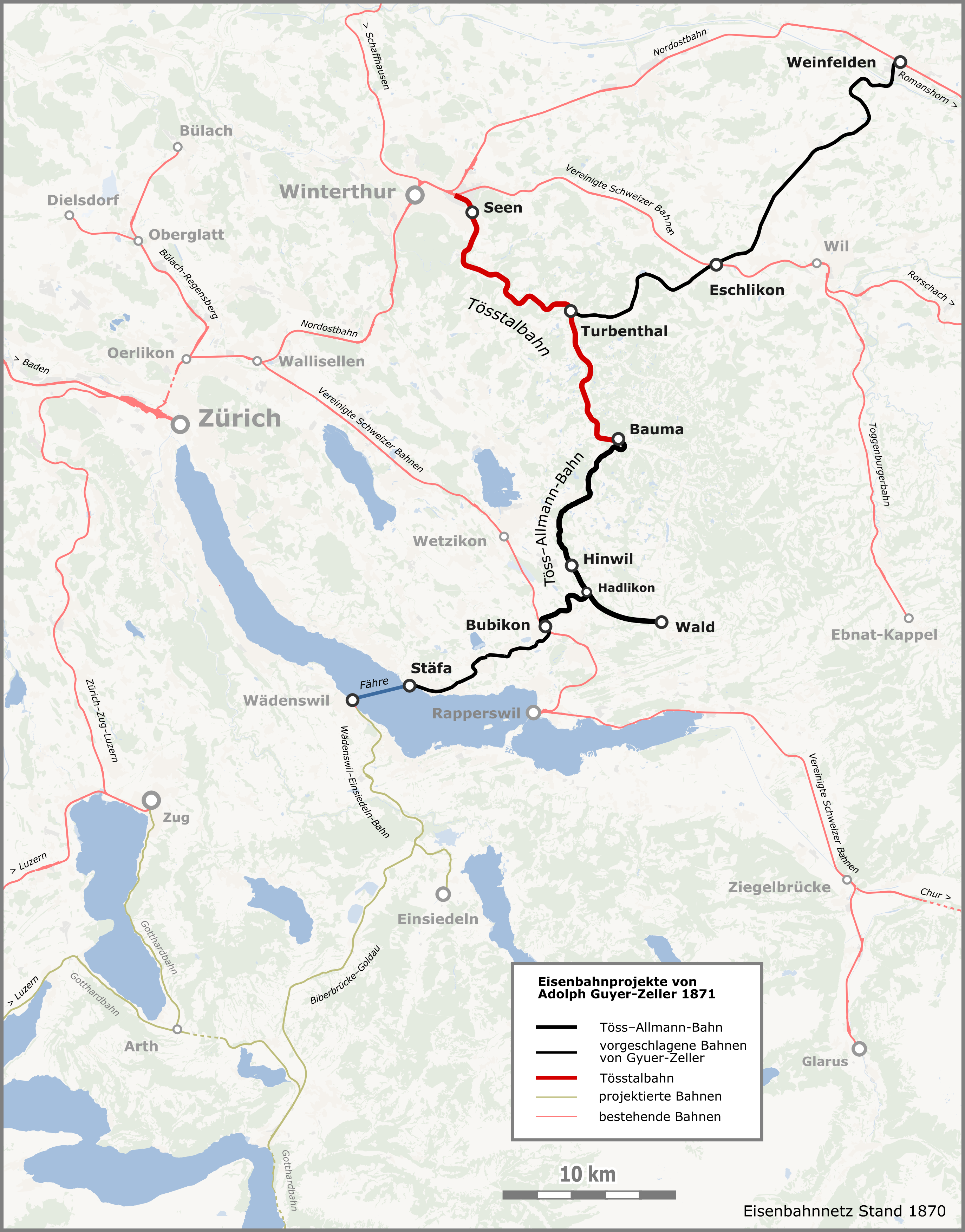 Project Adolf Guyer-Zeller to build a link between Lake Constance and Lake Zurich with connection to Gotthard Railway